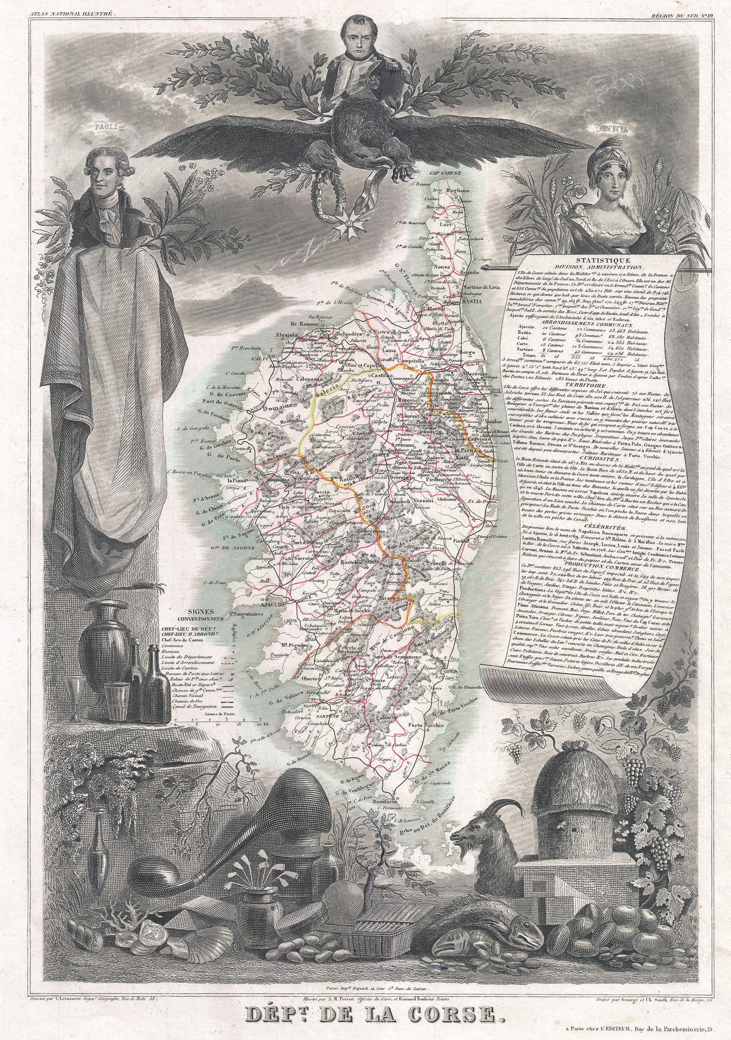 A visually stunning decorative map of Corsica (La Corse) dating to 1852, by French map publisher Victor Levasseur. Levasseur published several different editions of his Corsica map - this being first. The island of Corsica is drawn inconsiderable detail showing its many forests, roadways, cities, and three primary districts. By far this map's most striking feature is its elaborate allegorical border work. Levasseur composed this map for publication in his magnificent Atlas Nacionale de la France Illustree , one of the most decorative and beautifully produced atlases to appear in the 19th century. This particular map is surrounded on all sides with elaborate illustrative border work showing the cultural, natural, and trade richness of Corsica. Napoleon Bonaparte, Corsica's most celebrated son, appears at the top of the map, over a great imperial Eagle. To his right and left appear Paoli, a Corsican Nationalist Leader, and Loetitia, Napoleon's mother. The remainder of the decorative border work is given to displacing the the many products of Corsica, including Goats, honey, wines, distilled spirits, seafood, cheese, and sardines. Publised by V. Levasseur in the 1852 edition of his Atlas National de la France Illustree.